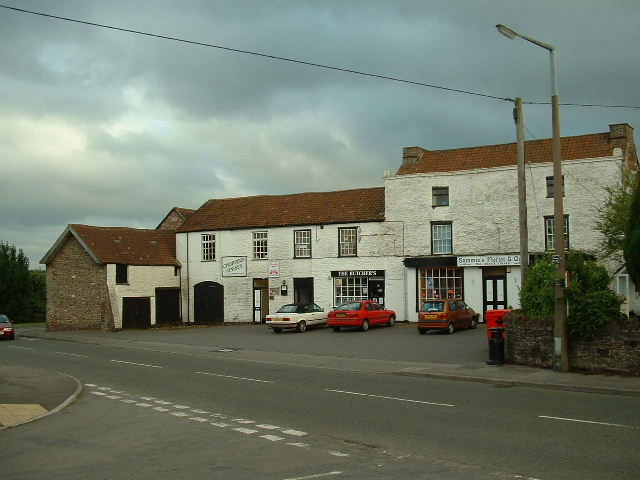 Frampton End. Looking south toward the shops opposite Frampton End lane.